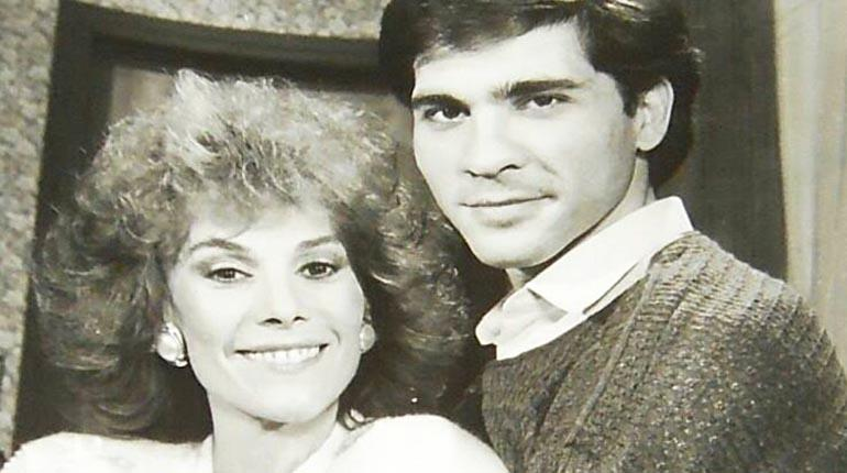 In 1983, she was 40 years old, and he, 24. Silvia Montanari and Darío Grandinetti